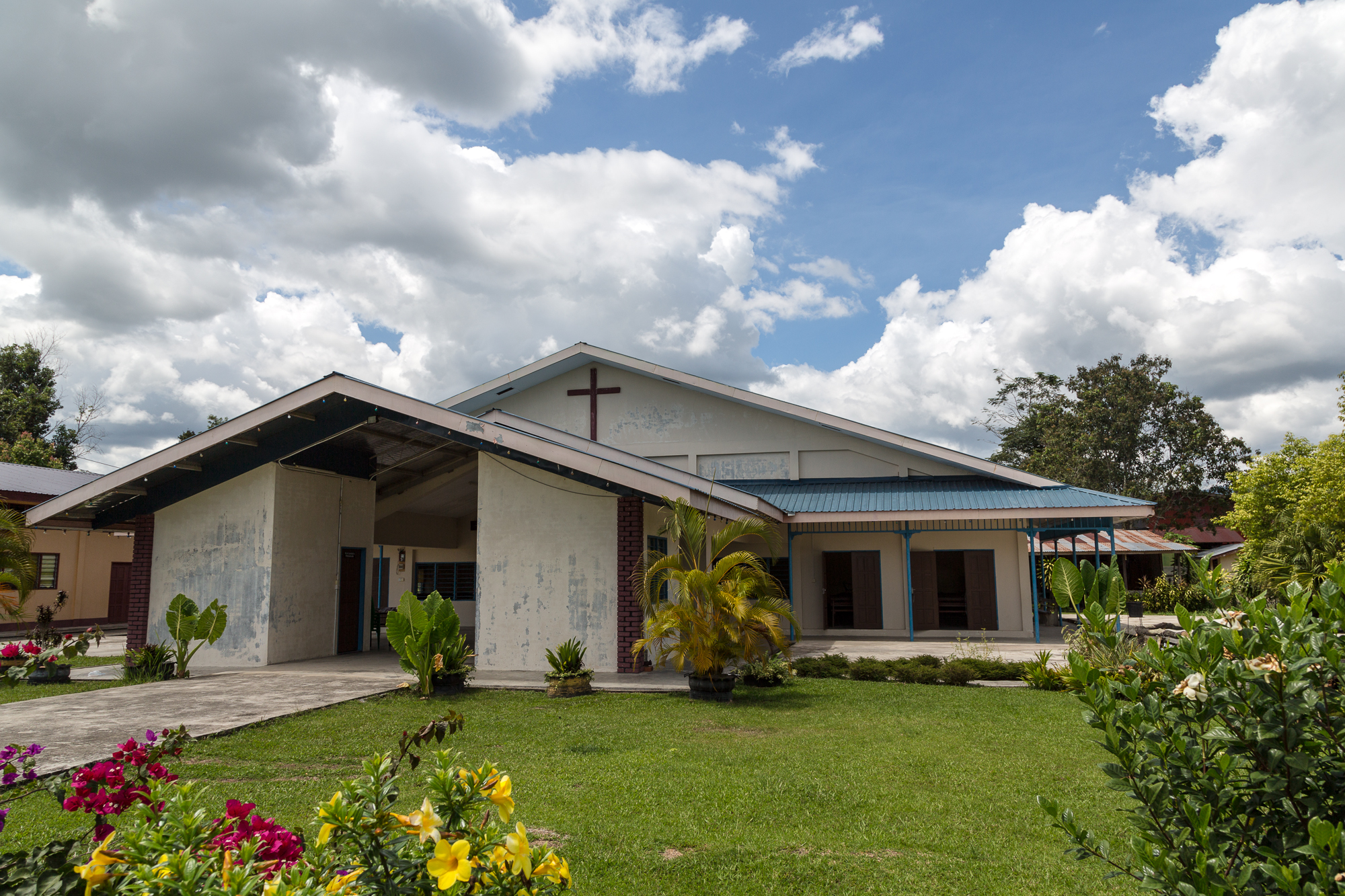 Kg. Bingkor, Keningau, Sabah: St. Mary's Catholic Church